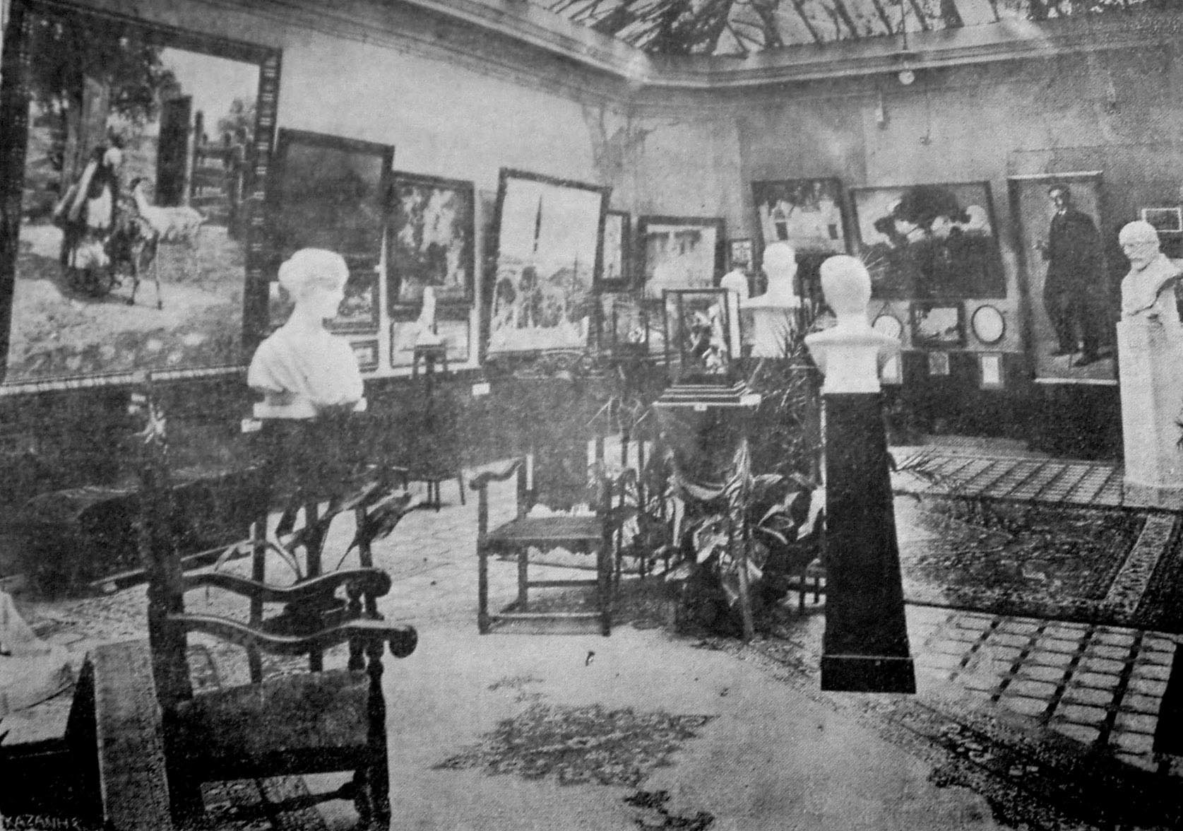 View of the Group Techni exhibition on 1917